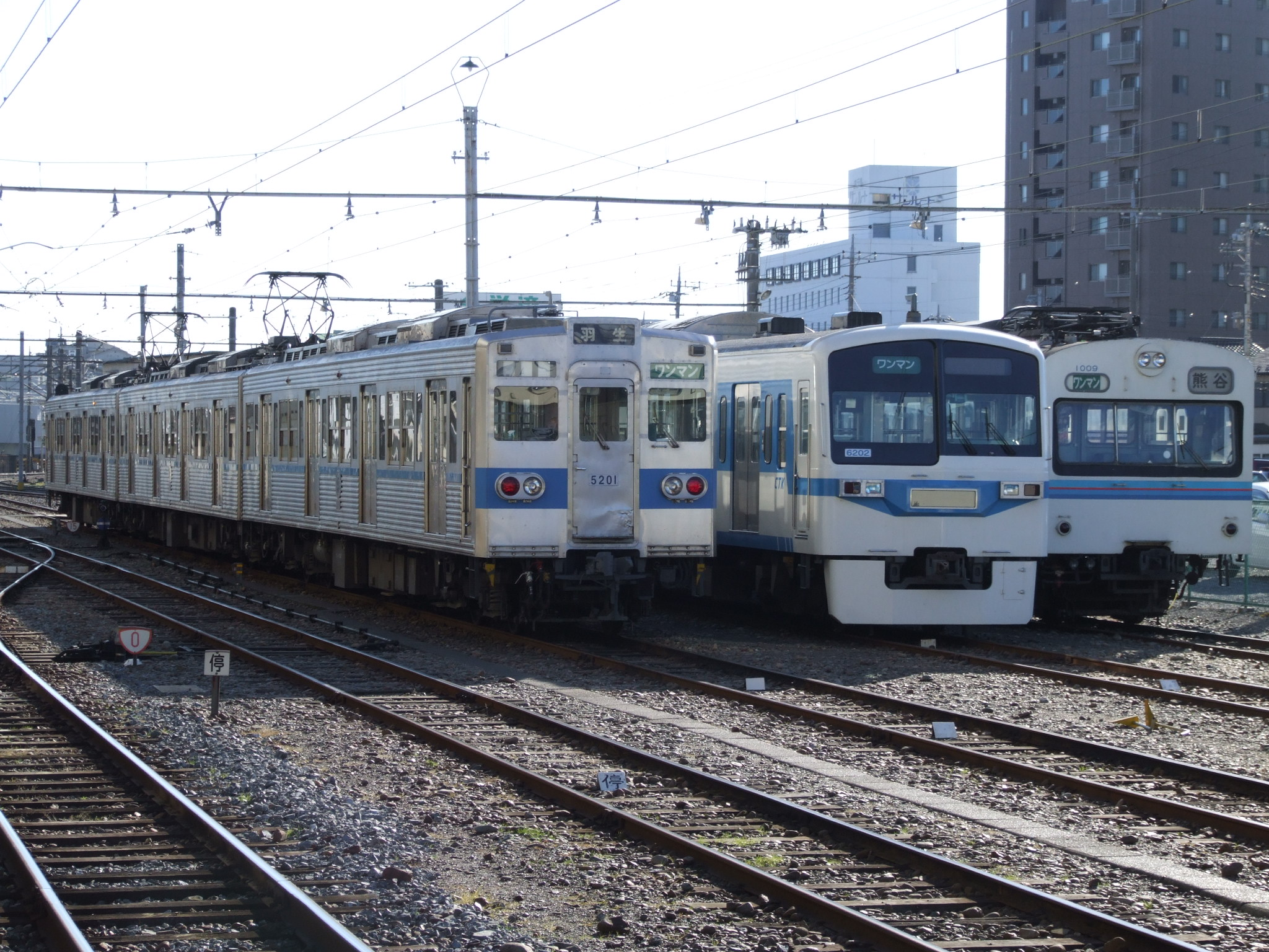 Chichibu Railway 5000, 6000, and 1000 series EMUs at Kumagaya Station